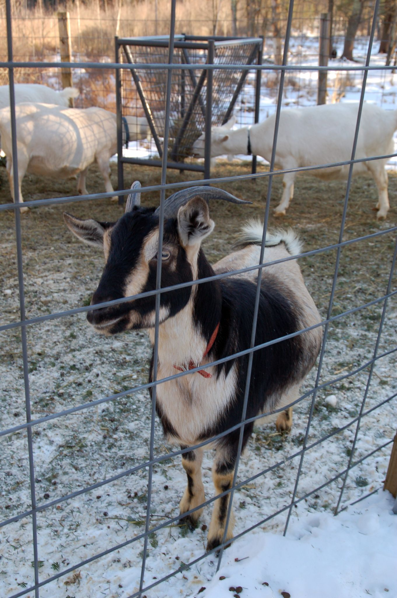 An Arapawa Island breed goat on a dairy farm.